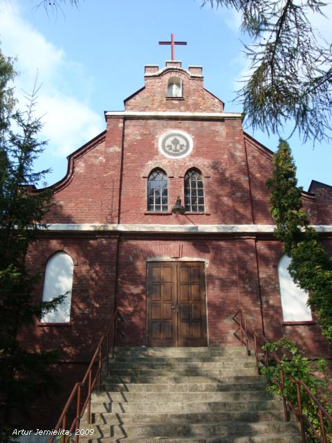 Old Catholic Church of the Mariavites in Lublin